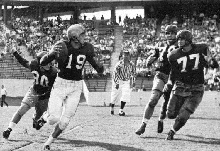 An American football game between the 1952 Houston Cougars and the Baylor Bears at Rice Stadium in Houston. Pictured are Houston's M. "Buddy" Gillioz (#77), J.D. Kimmel (#78), and Roland Johnson (#80), and Baylor's "Cotton" Davidson (#19).